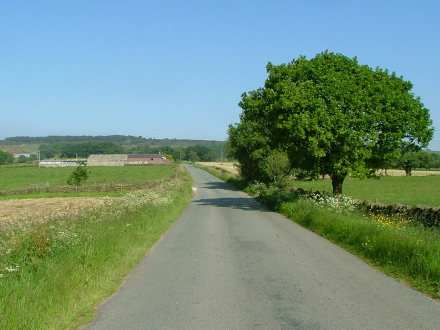 Broadmoss Farm Heaton, Rushton Spencer.